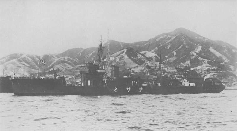 HIJMS Nasami